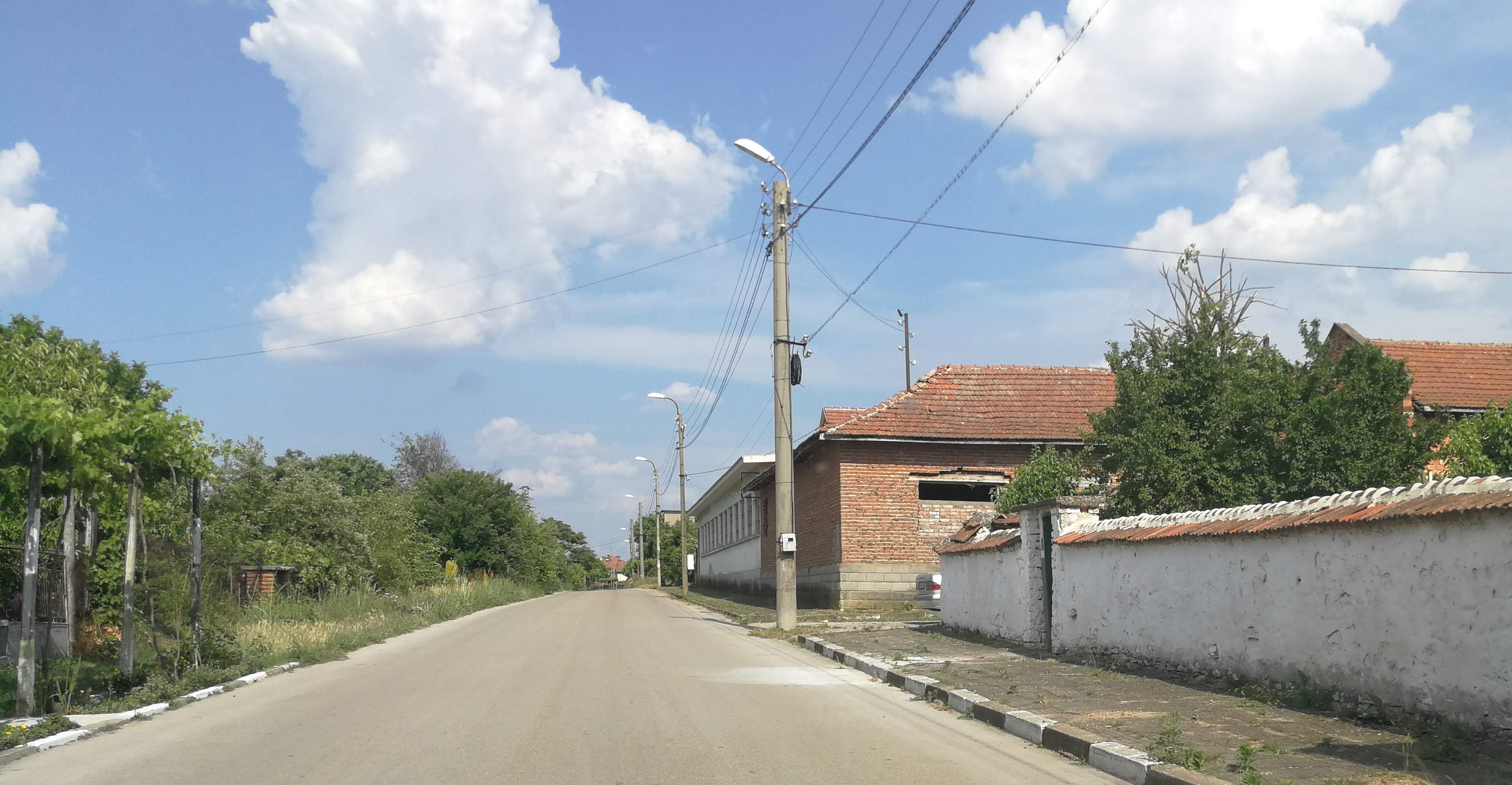 Village of Chavdartsi, Lovech Region, Bulgaria